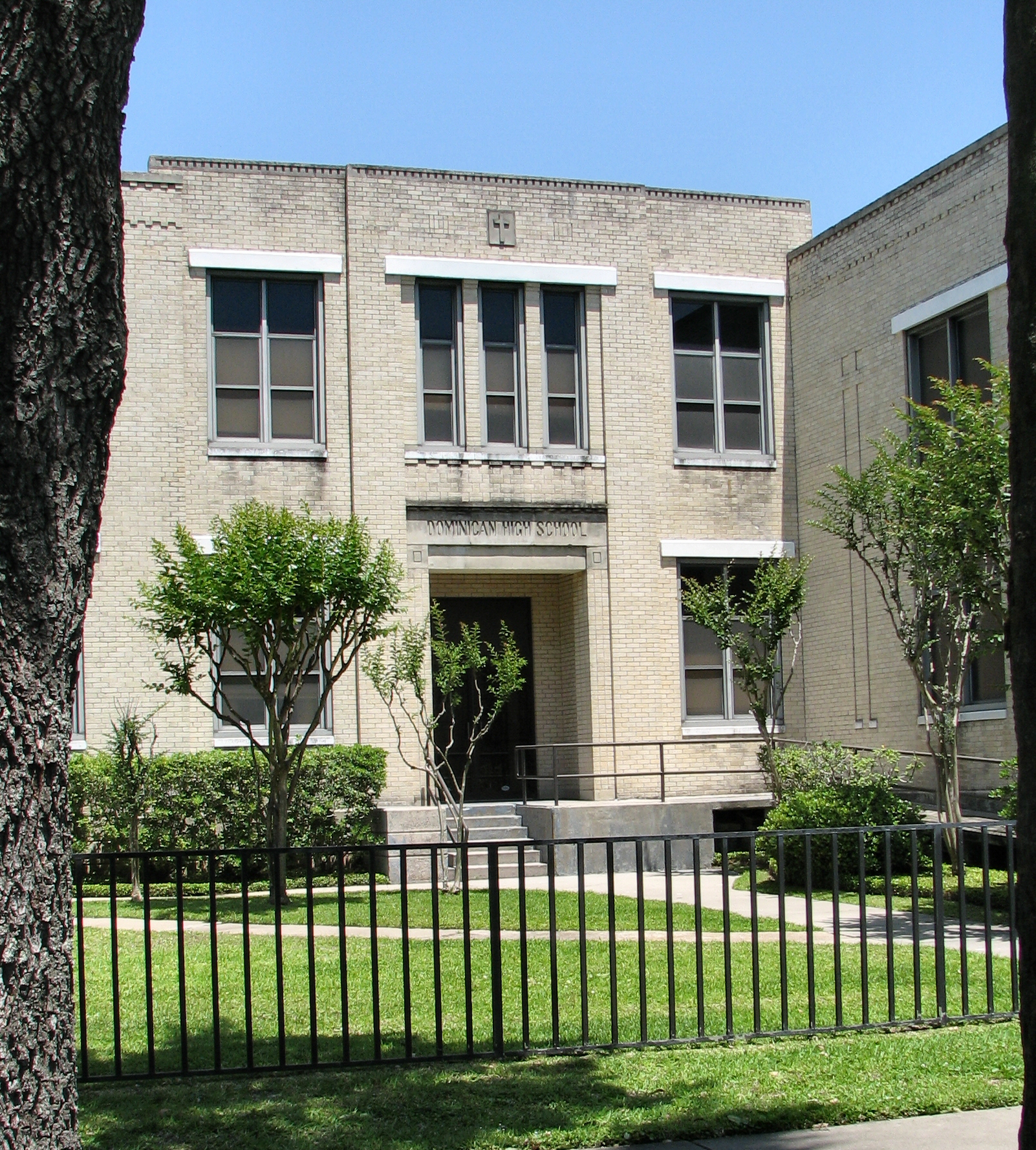 Former Dominican High School in Galveston, Texas. Now part of the Transitional Learning Center brain injury rehabilitation facility.